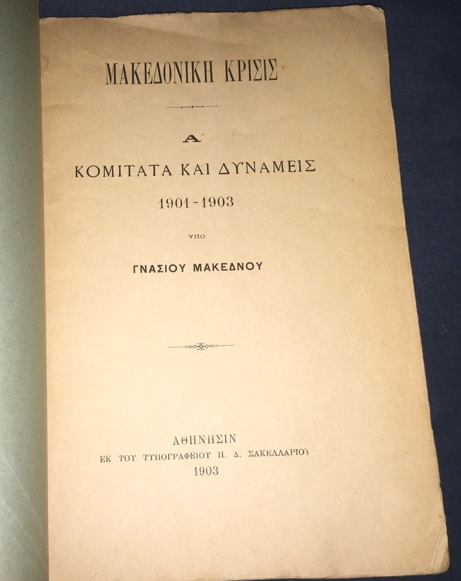 Makedoniki Krisis